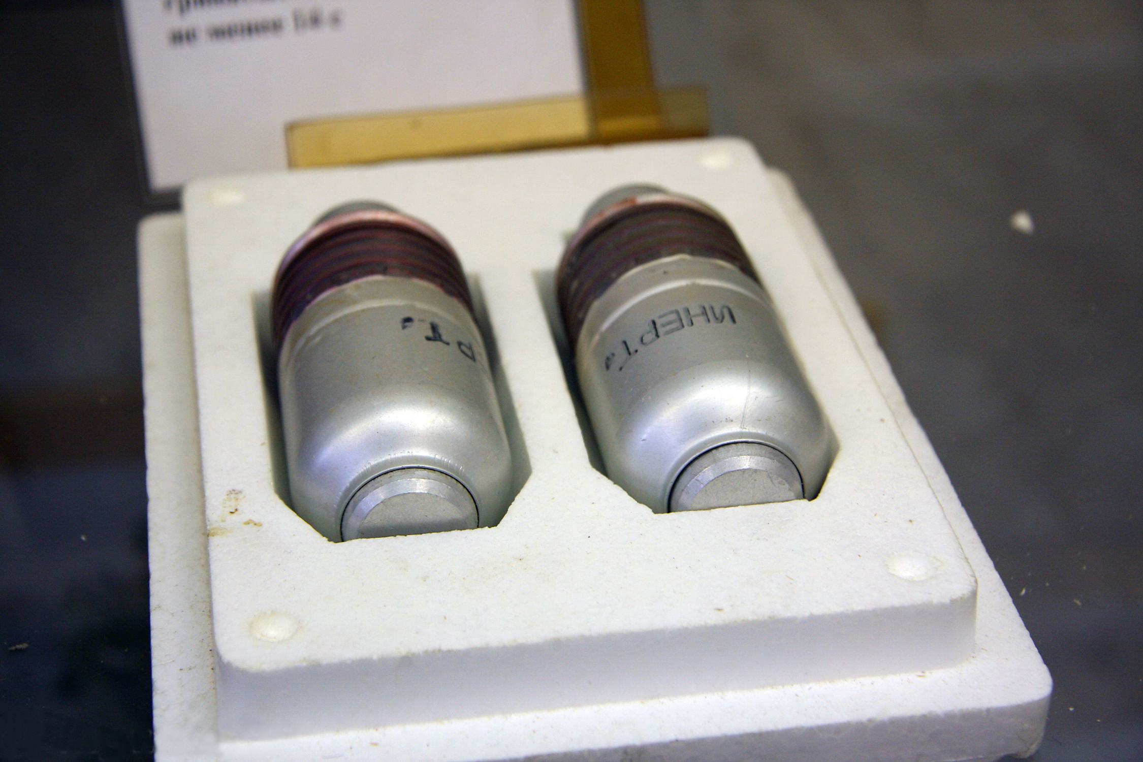 VOG-25